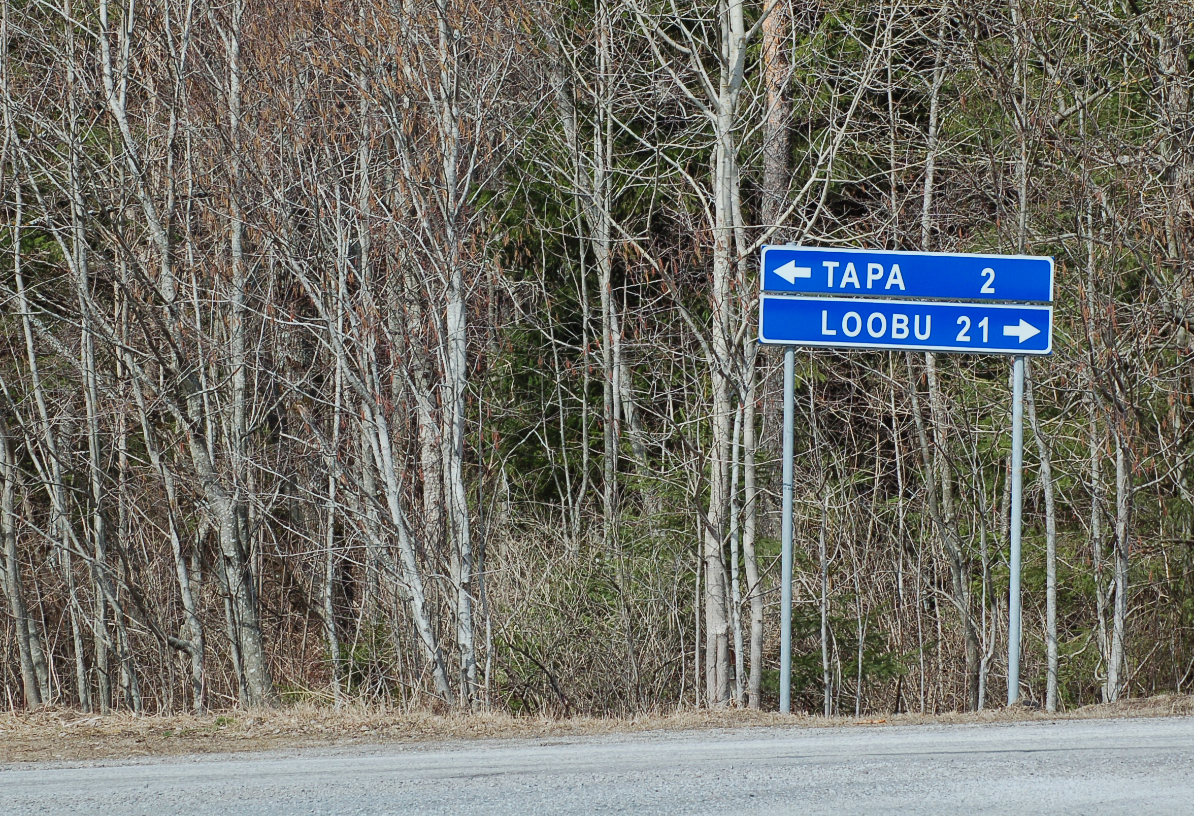 Road sign in Estonia. Tapa 2 km, Loobu 21 km. The funny thing about the sign is that in Estonian tapa means "kill" and loobu "quit".